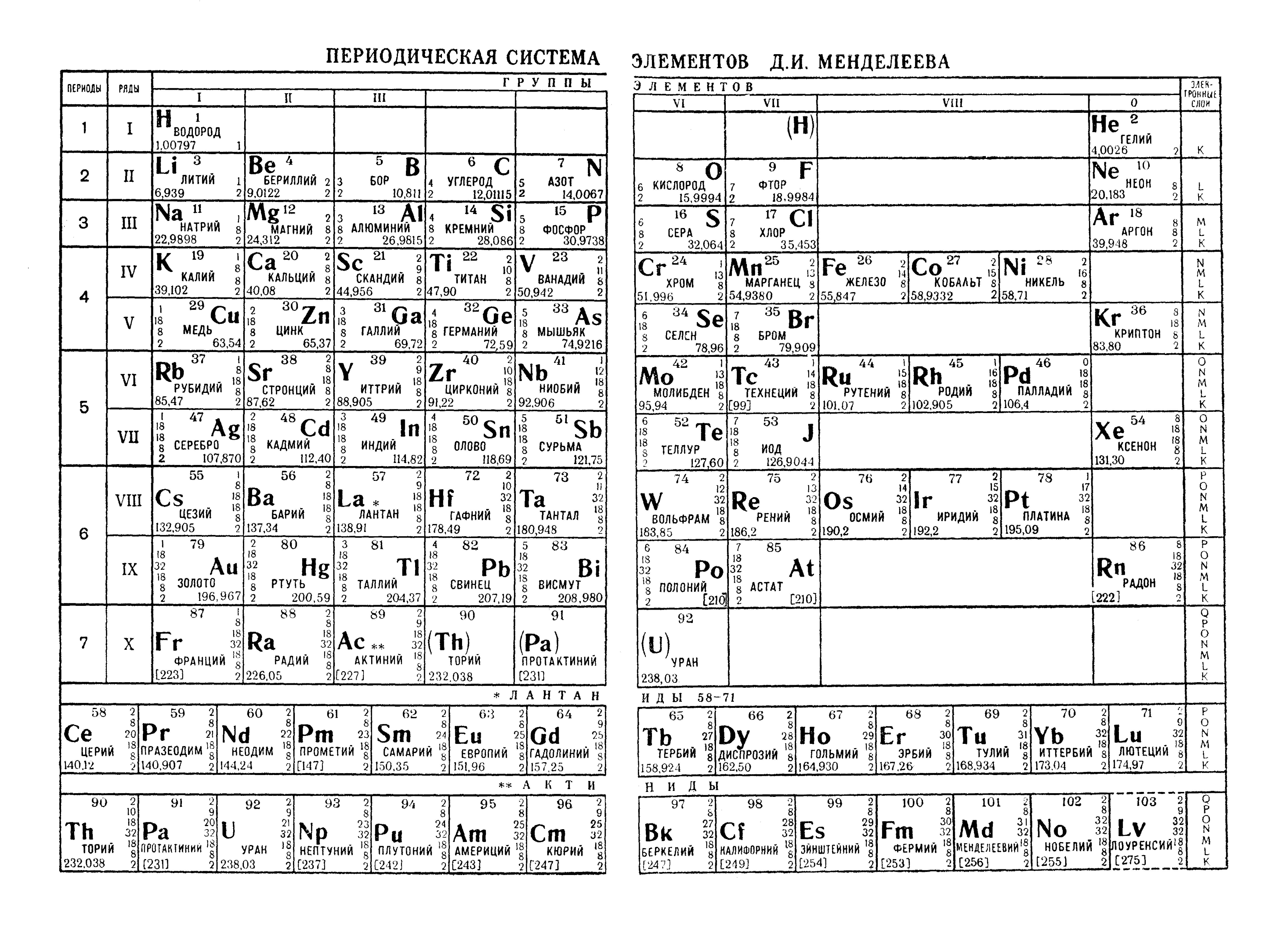 Periodic table in short form (1962)